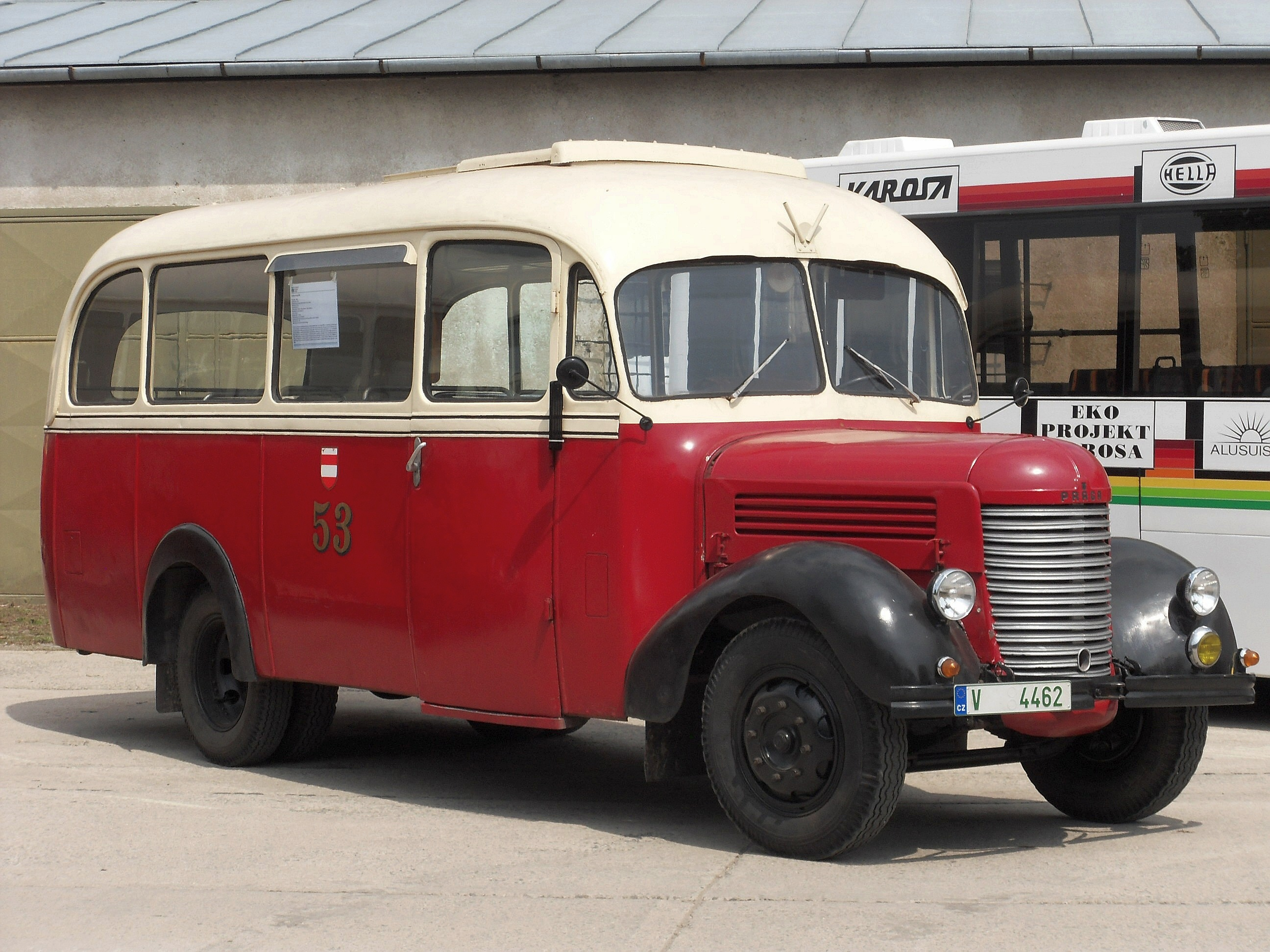 Historical bus Praga RND, depository of Technical Museum in Brno, Czech Republic